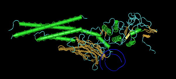 Crystal structure of STAT3 bound to DNA. Produced with Cn3D using coordinates from PDB (1BG1)